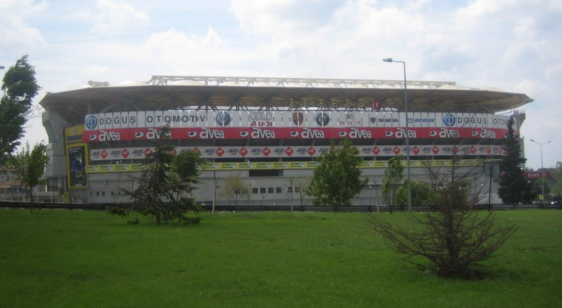 Şükrü Saraçoğlu stadium, in İstanbul. This stadium is used by the turkish football team of Fenerbahçe.